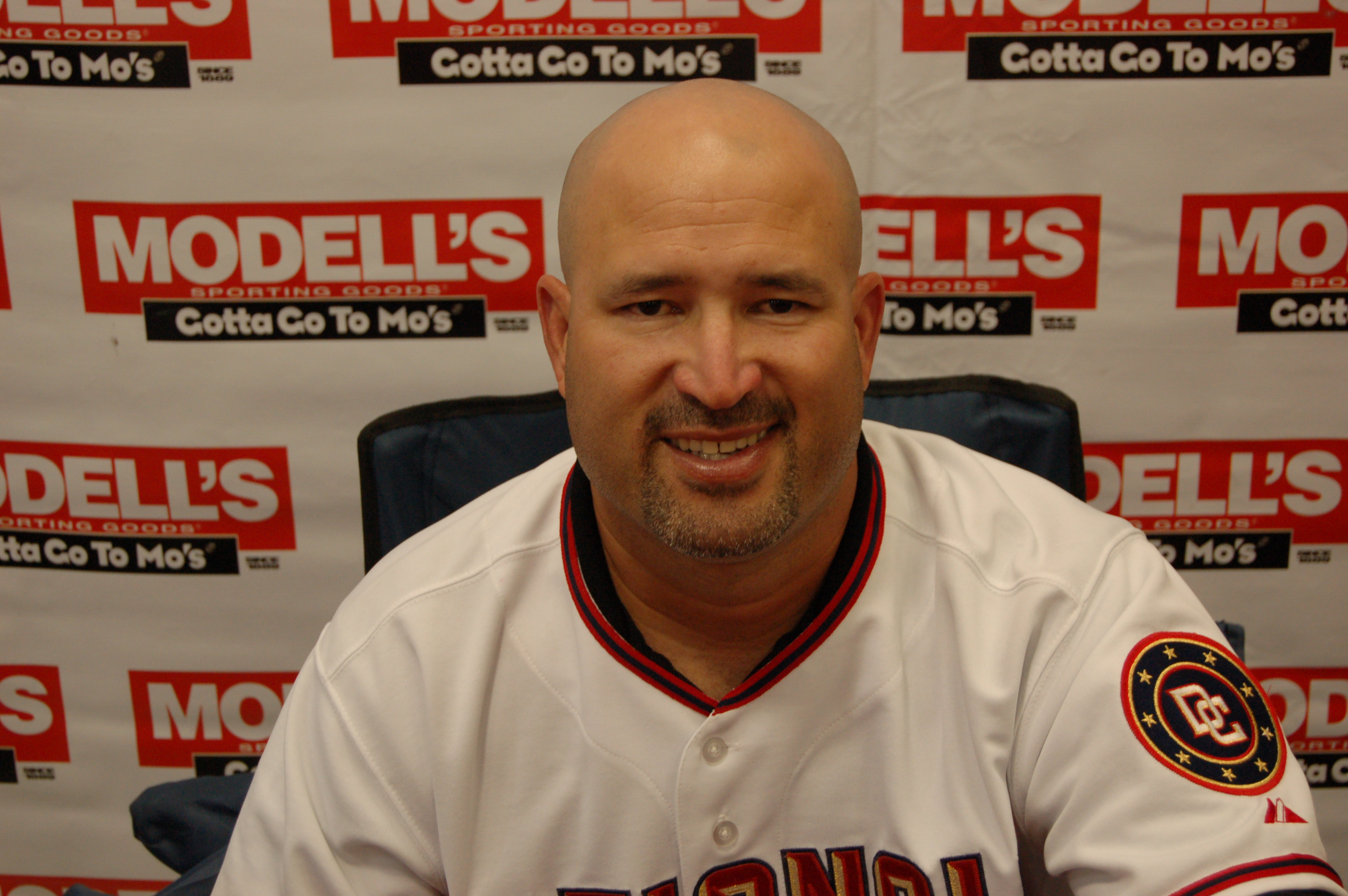 It was great meeting Manny, he even posed for this shot.